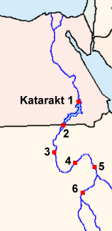 Location of main cataracts in Nile river, Egypt and Sudan. Based on picture image:Nile.png. Anton (2006)